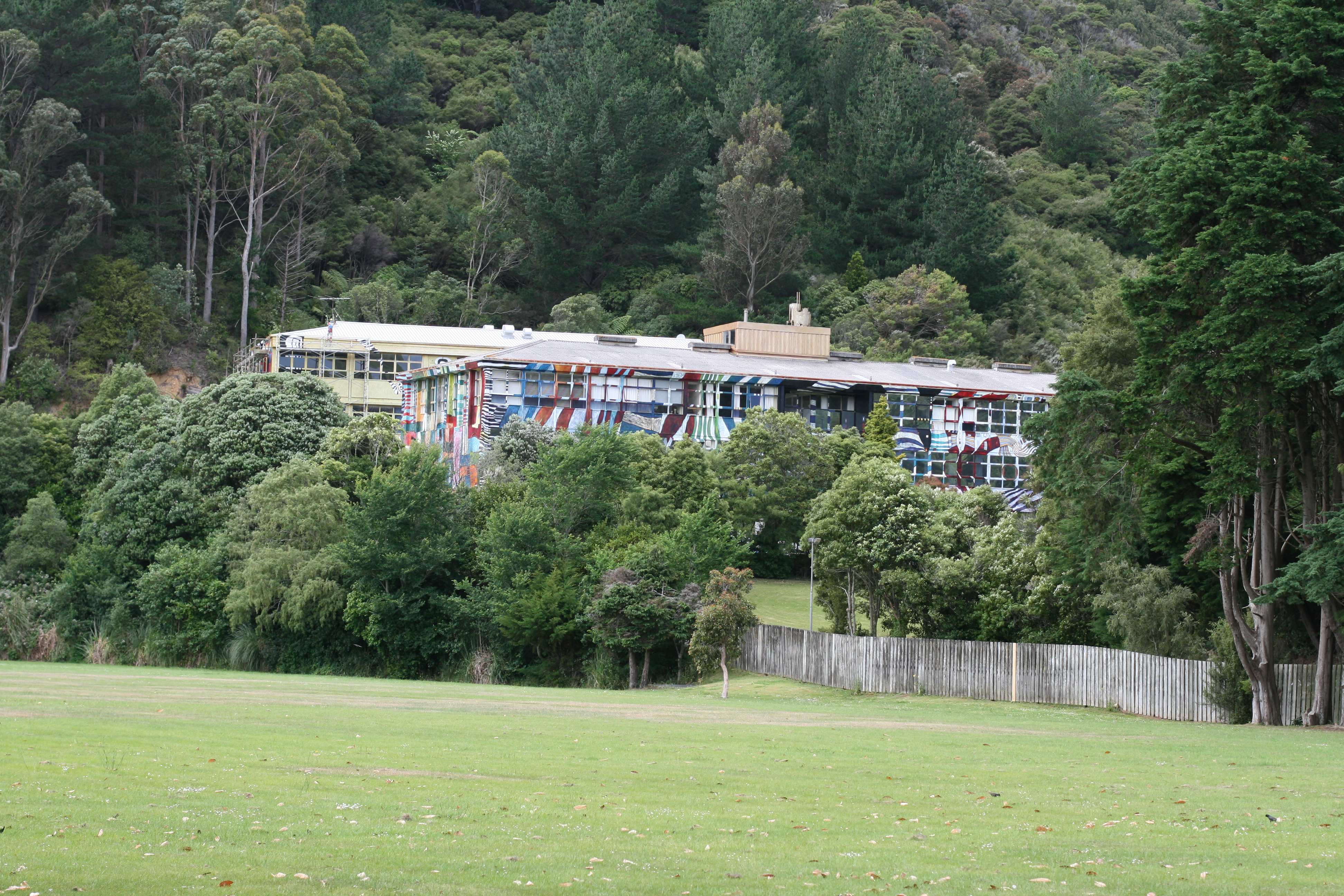 The Learning Connection campus with Taita College fields in foreground